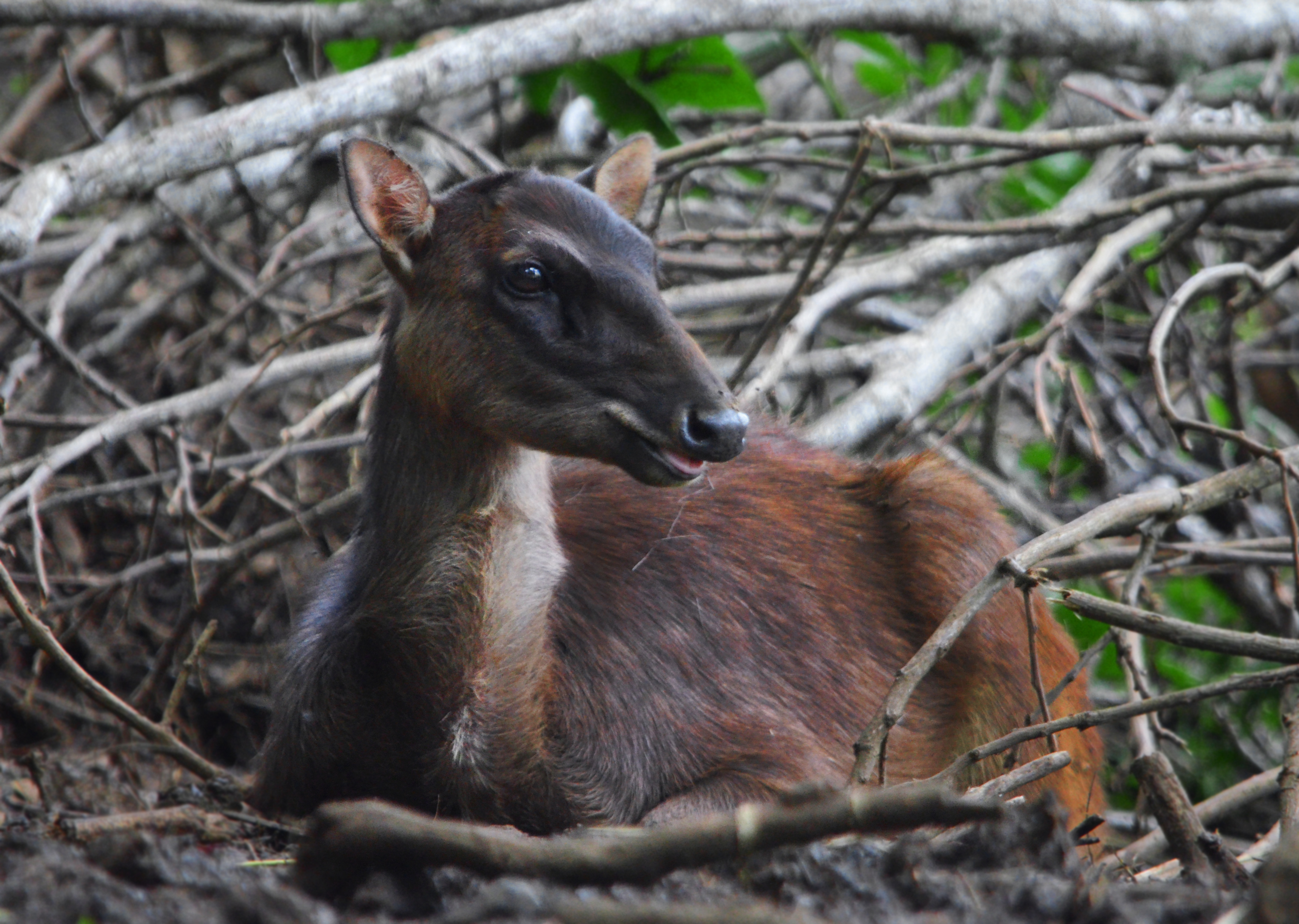 An adult female Philippine Deer Doe rests by the woods in Mindanao, the Philippines.